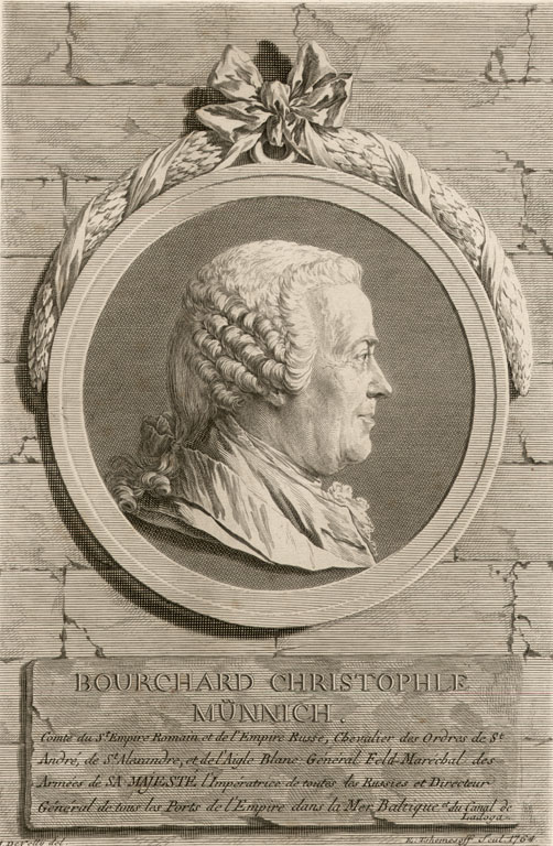 Engraved portrait of Burkhard Christoph von Münnich (1683-1757), engraving.